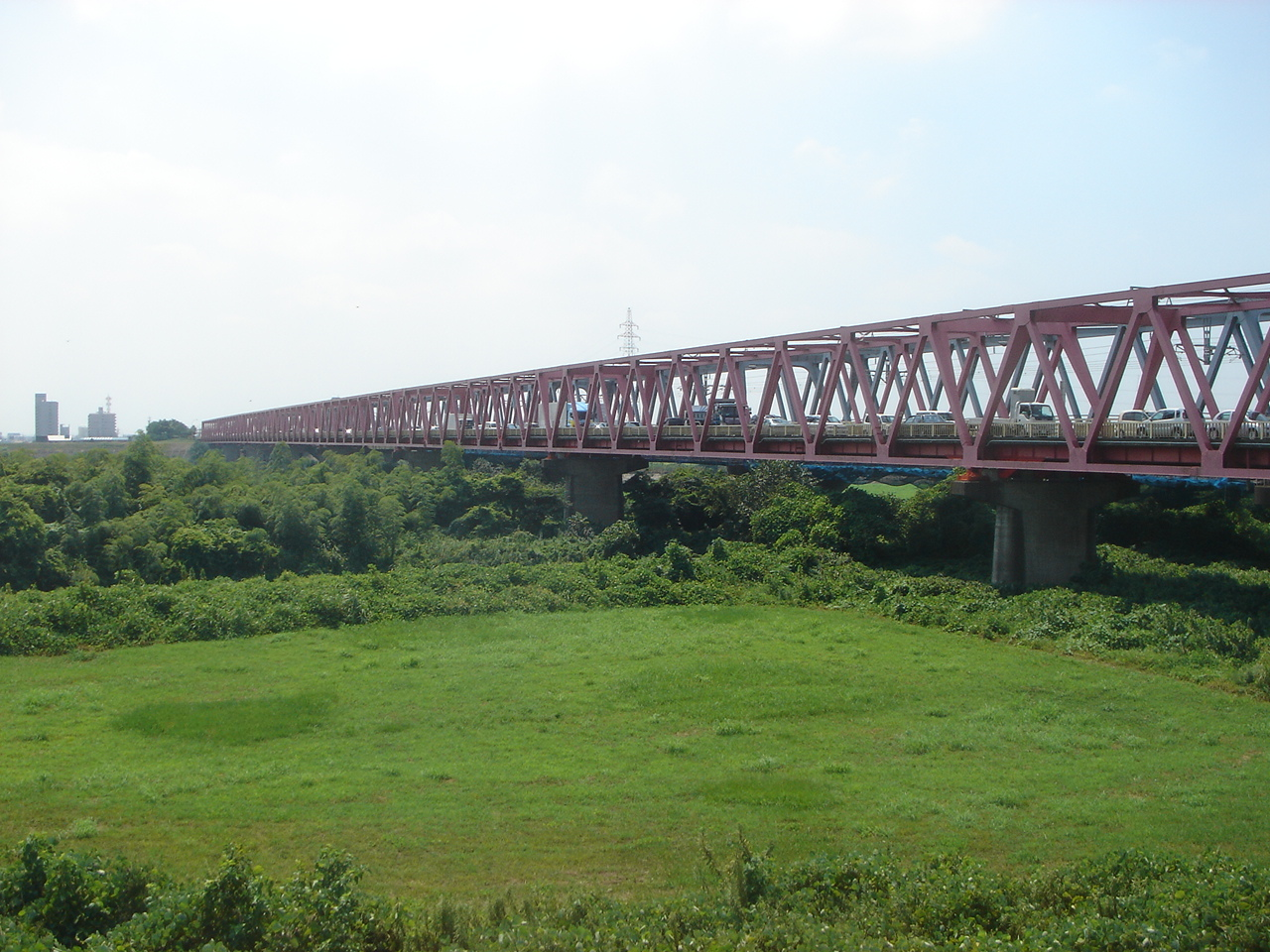 The Hashima Bridge (Hashima Ohashi) on the Gifu Prefectural Road Route 18 over the Nagara River, in Anpachi Town